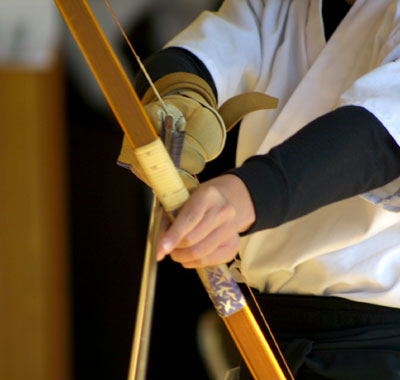 A Kyudoka preparing to fire, the mitsukake, the kyudo three fingered glove, is visible on the bowstring. Taken at a kyudo competition in the Kanto area, Japan.